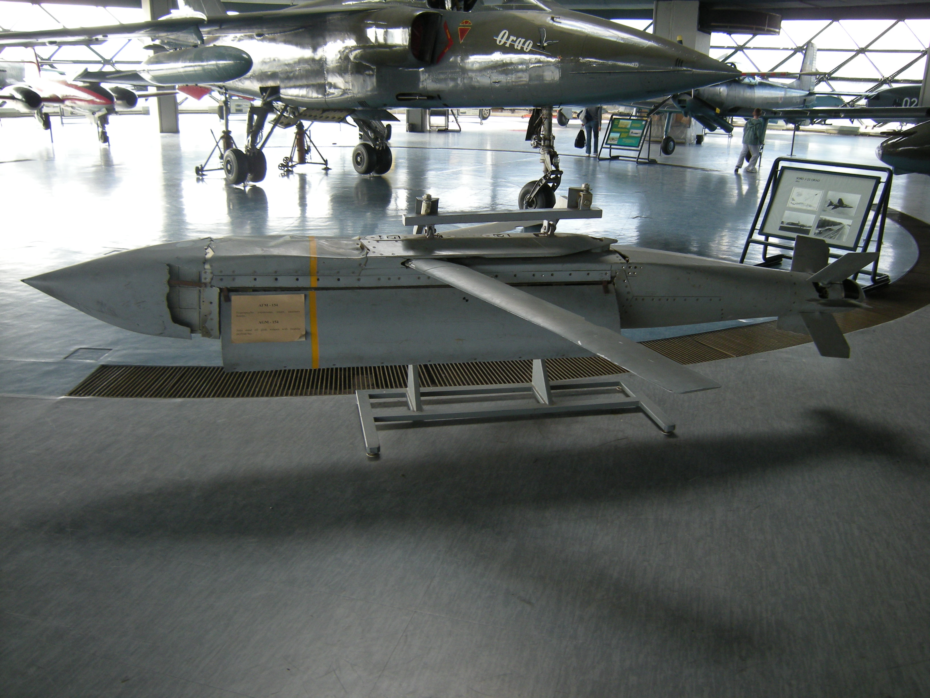 AGM-154 in Belgrad Aviation Museum (sorry for mistake in file name)